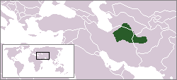 Parthia (Parthia proper, ca 300 BCE)